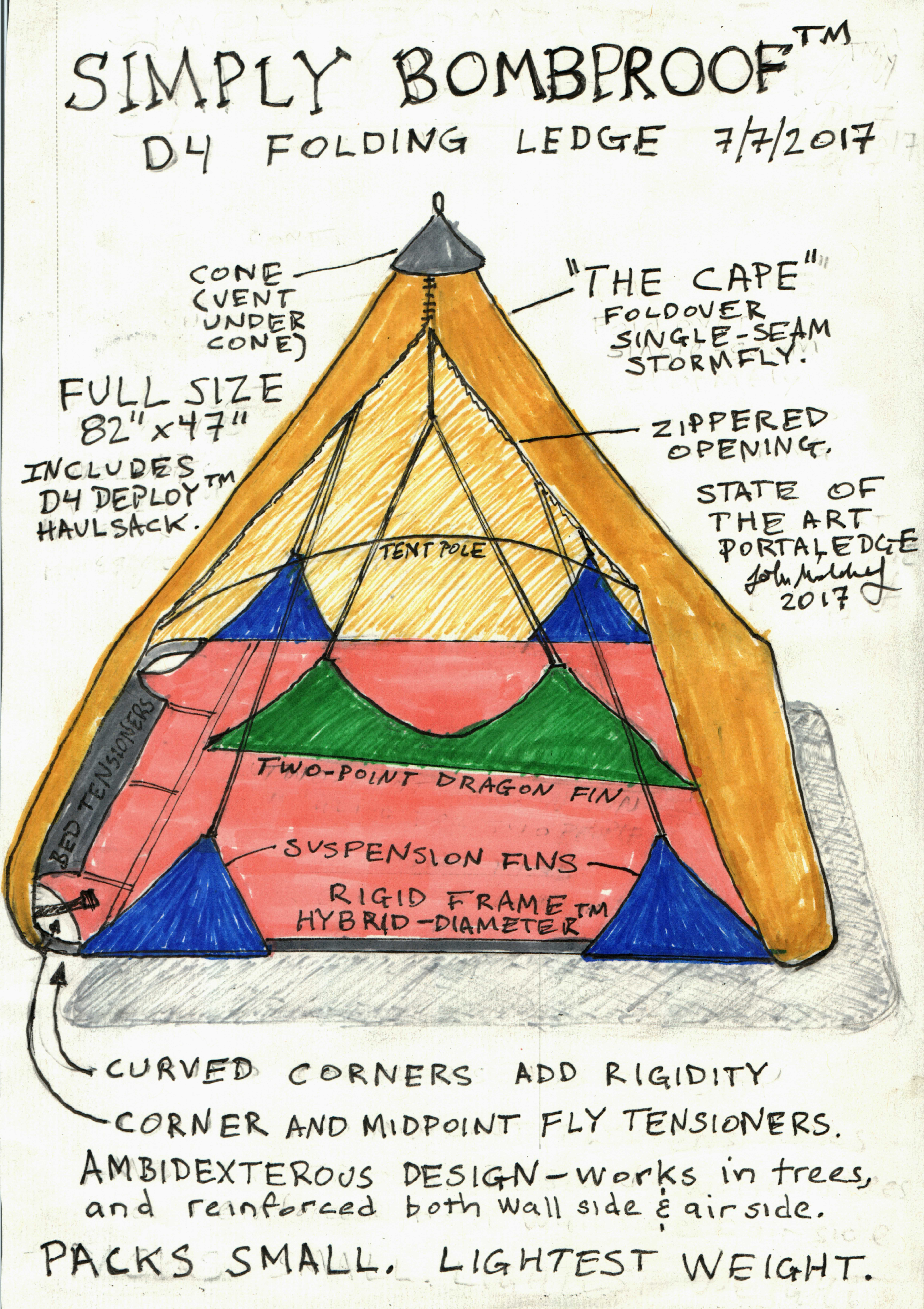 New State of the Art Portaledge Design, 2017. The portaledge has been re-invented in 2017 and this designs supercedes the current state of the art as published in the 1996 "Simply" version.